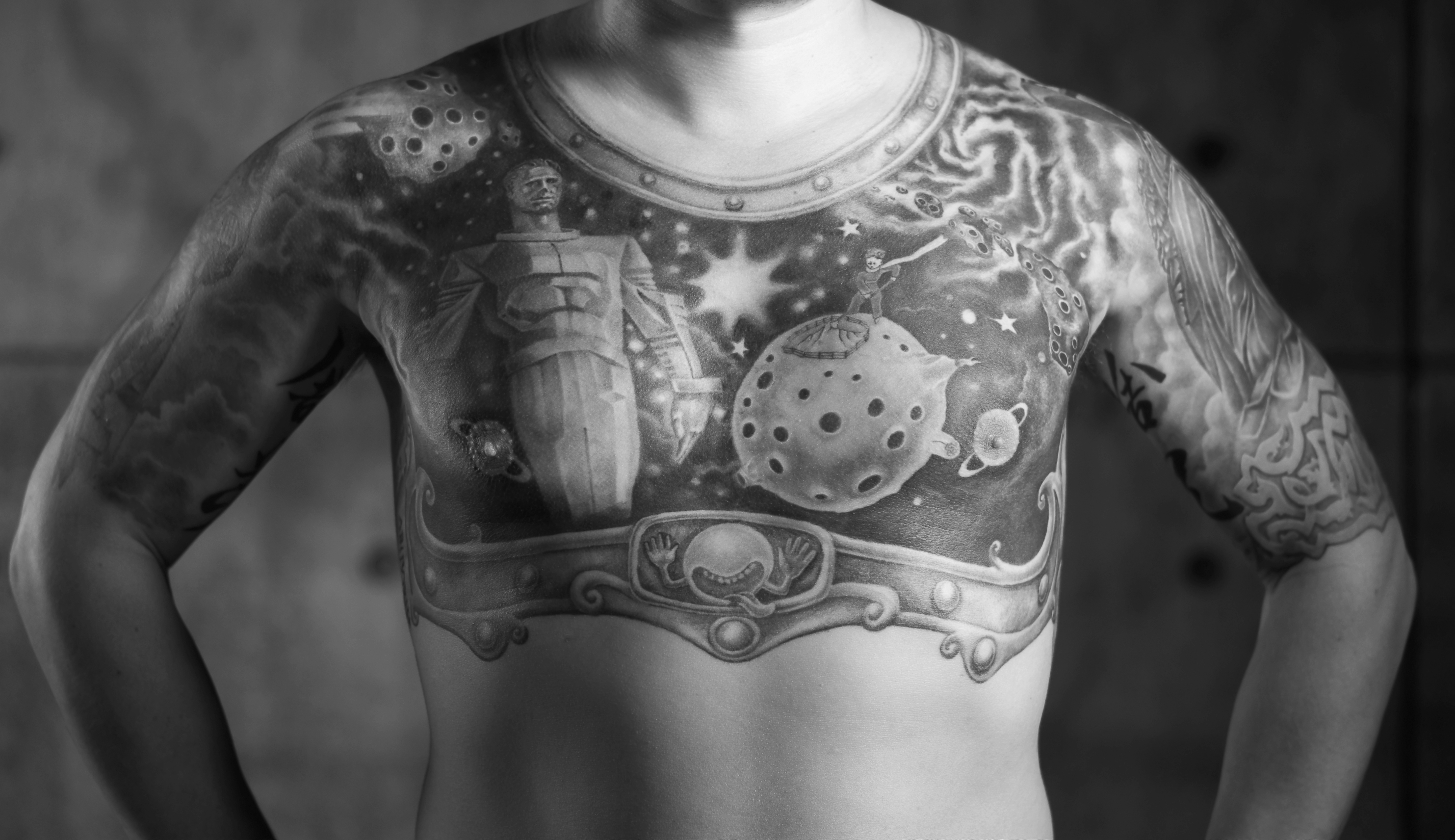 Man with a full chest tattoo. Left side of the chest: drawing from "Le Petit Prince" (The Little Prince) by Antoine de Saint-Exupéry. Right side of the chest: Monument to Yuri Gagarin located at Leninsky Avenue, Moscow, Russia. Middle of the chest: emblem of The Hitchhiker's Guide to the Galaxy. Background: space theme.